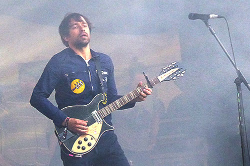 Peter Bjorn and John at the Immergut Festival 2016. Cropped version of File:Peter_Bjorn_and_John_immergut_02.jpg.